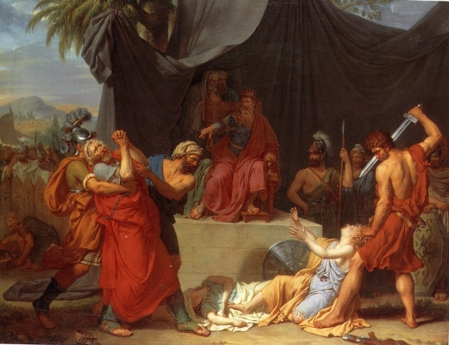 Nabuchodonosor Has Zedekiah's Children Killed before his Eyes